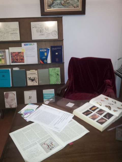 Ramon Margalef, Editathon